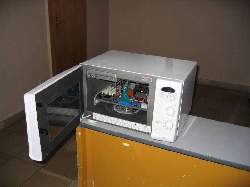 Case-Modding (PC in Mikrowelle)